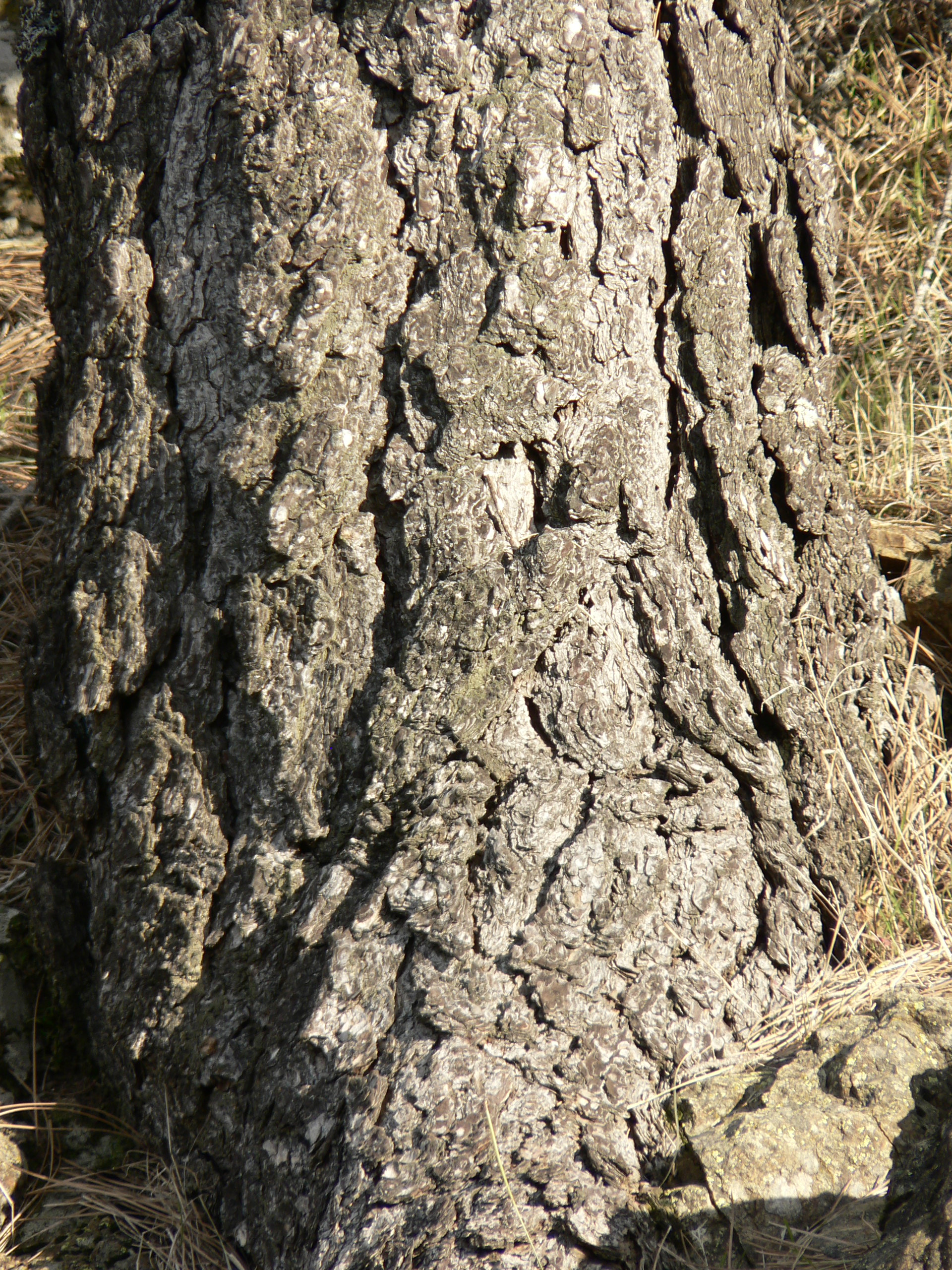 Gray Pine